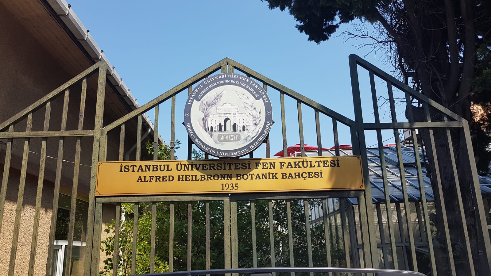 Istanbul University Alfred Heilbronn Botanical Garden entrance.